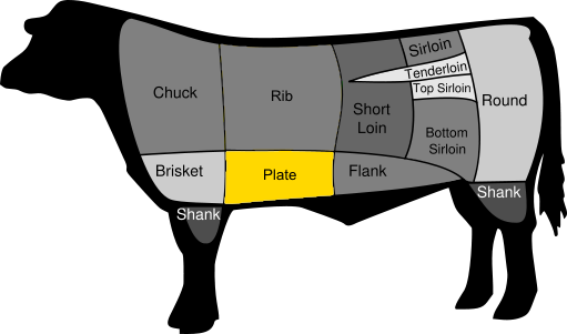 Diagram of domesticated cattle, showing the cuts of beef with short plate highlighted in yellow.